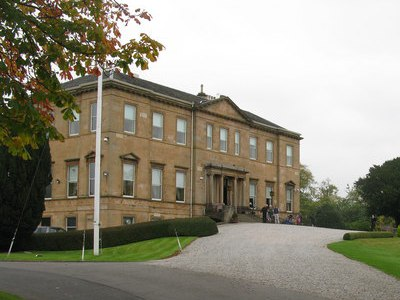 Killermont Golf Club - Clubhouse